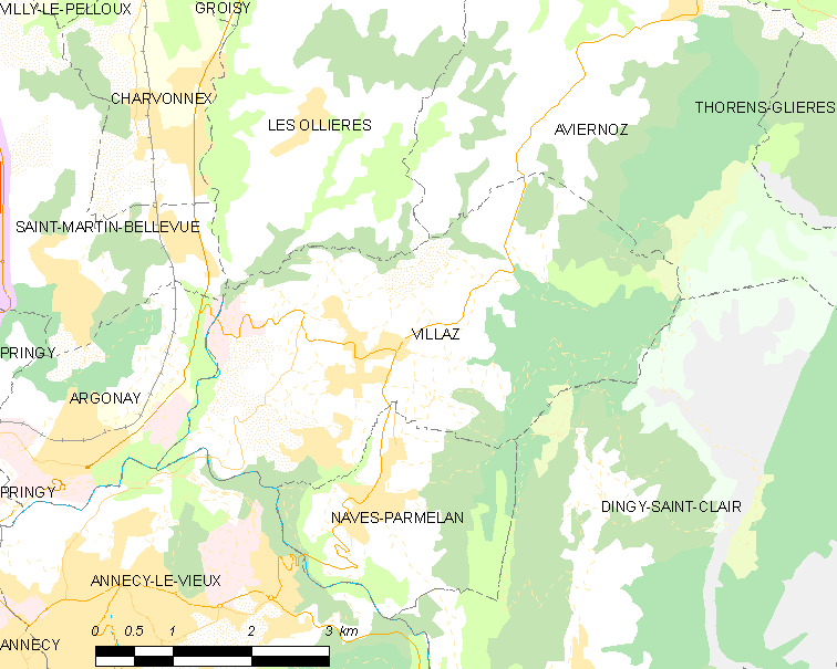 Map of French municipality Villaz